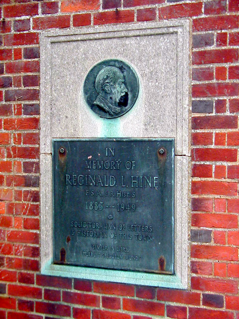 Hine Memorial, Lower Tilehouse Street, Hitchin Hine was a lawyer and author and wrote much about Hitchin. A biography 'The Ghosts of Reginald Hine' by Richard Whitmore (Mattingley Press), TV presenter and author, has just been published (2007).